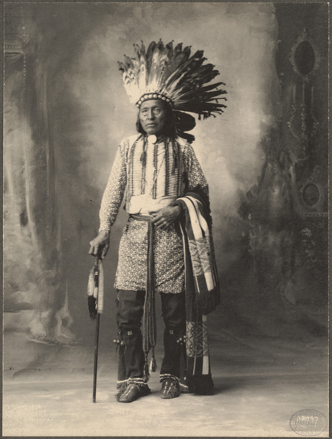 BPLDC no.: 09_06_000077 Rinehart no.: 797 Title: Arapahoe Chief Photographer: Rinehart, F. A. (Frank A.) Copyright date: 1898 Extent: 1 photographic print : platinum Genre: Platinum prints; Portrait photographs Subject: Indians of North America; Arapaho Indians; Trans-Mississippi and International Exposition (1898 : Omaha, Neb.) Notes: Title supplied by cataloger. BPL Department: Print Department